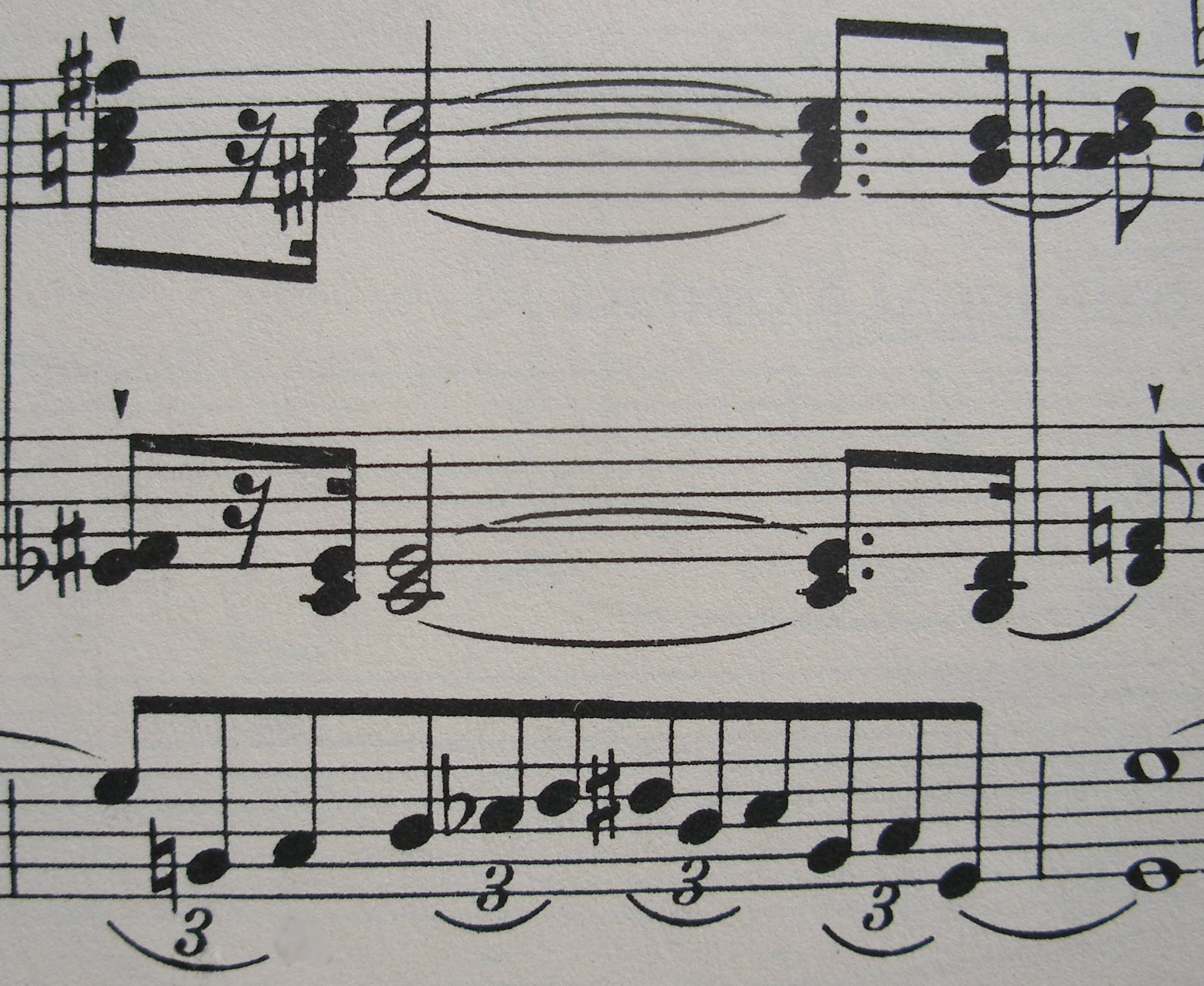 Music example from Julius Reubke's Sonata on the 94th Psalm, 1st movement. The edition is Oxford University Press, edited by Herbert F. Ellingford, 1932.